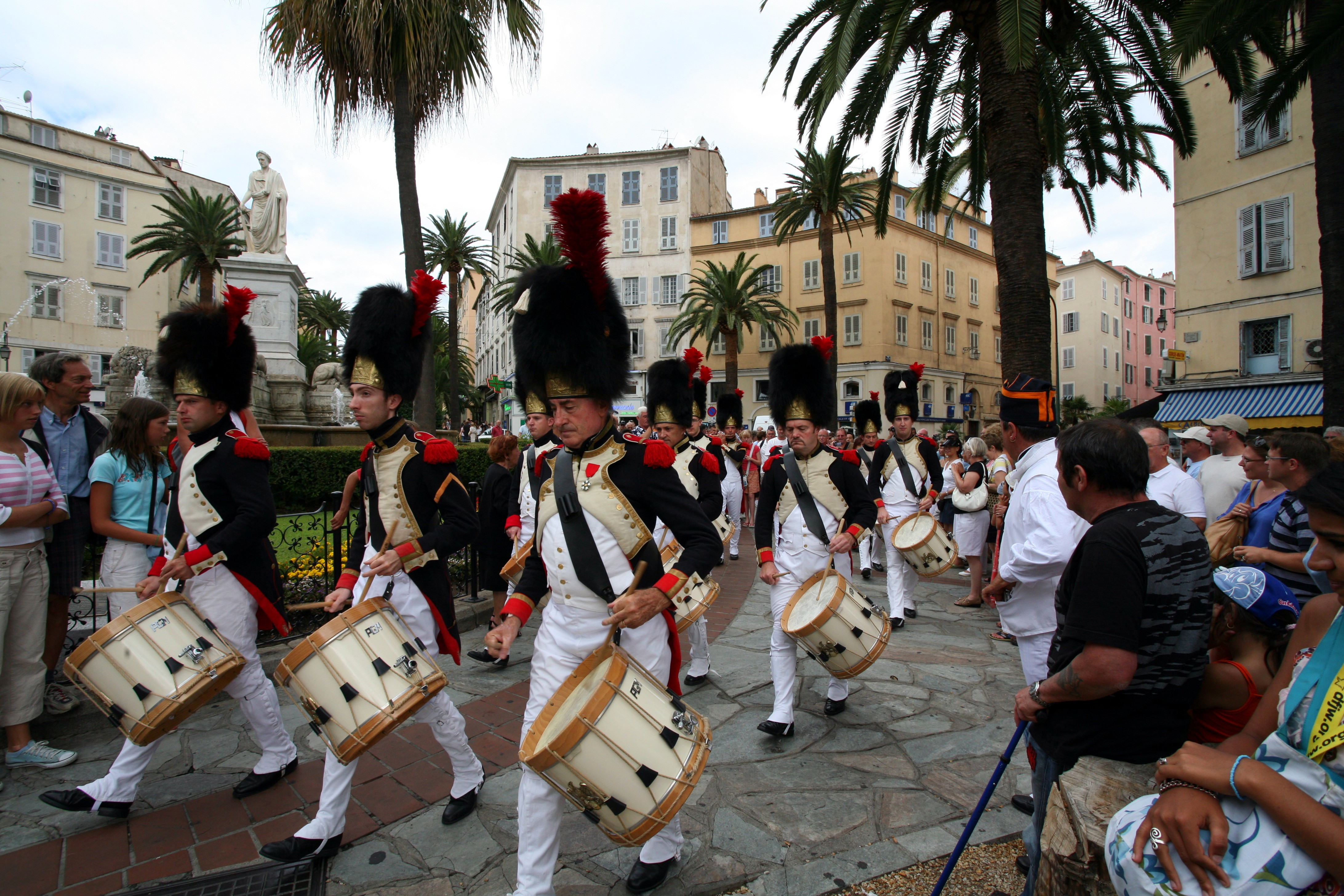 Ajaccio, Corsica, France - Napoleon's Birthday Celebration 2006